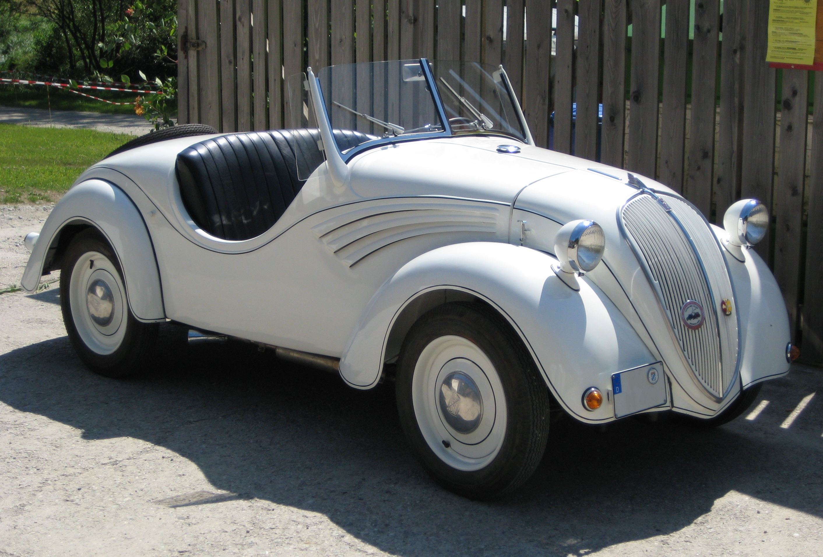 Fiat 500 Topolino convertible